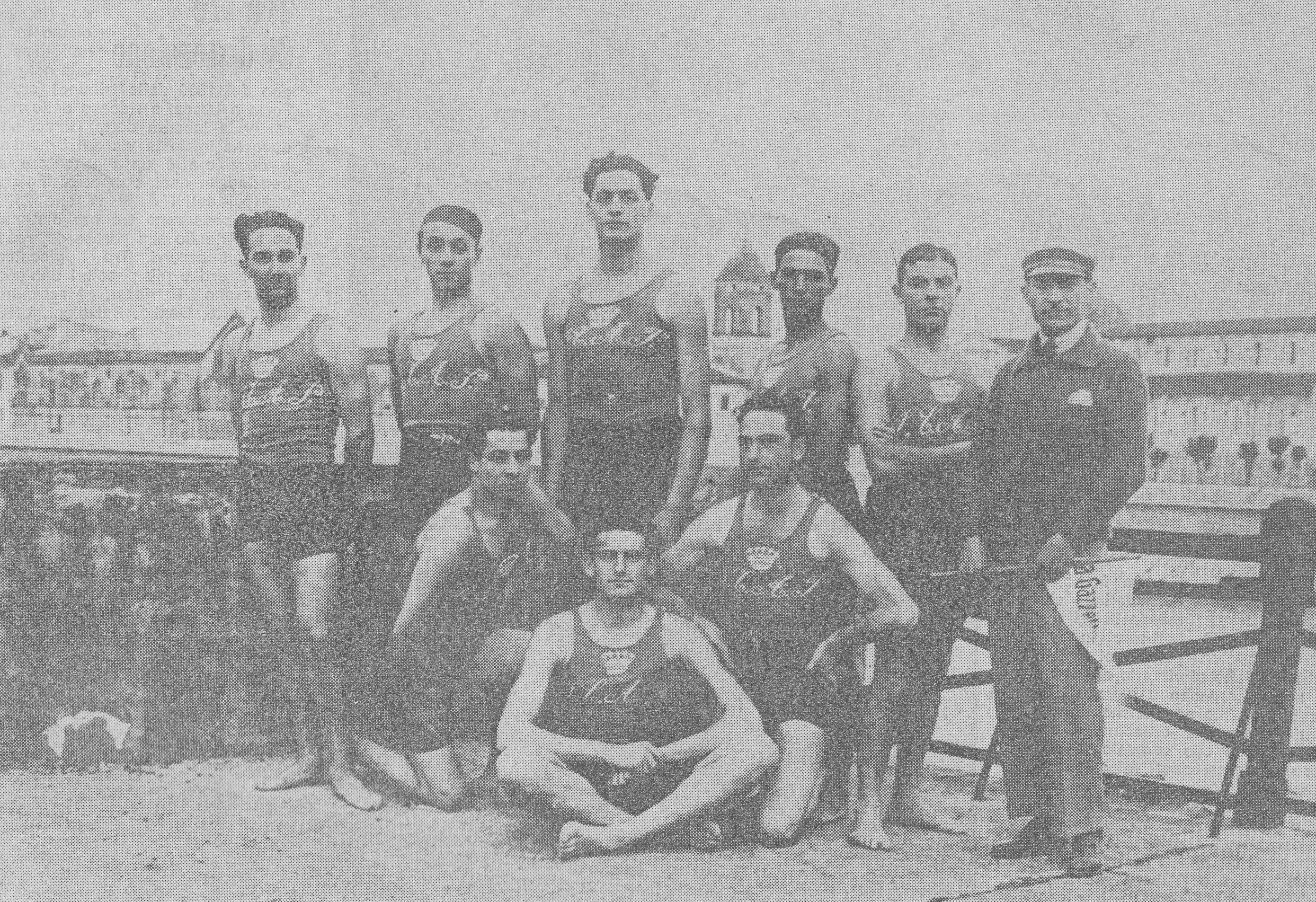 "Canottieri Arno" water-polo team, Tuscan champion in 1924.